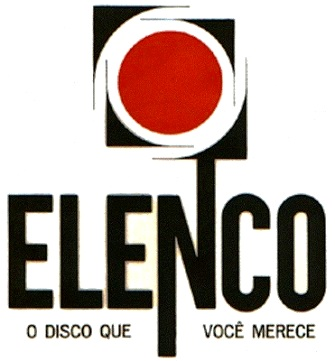 Logo marca da gravadora Elenco